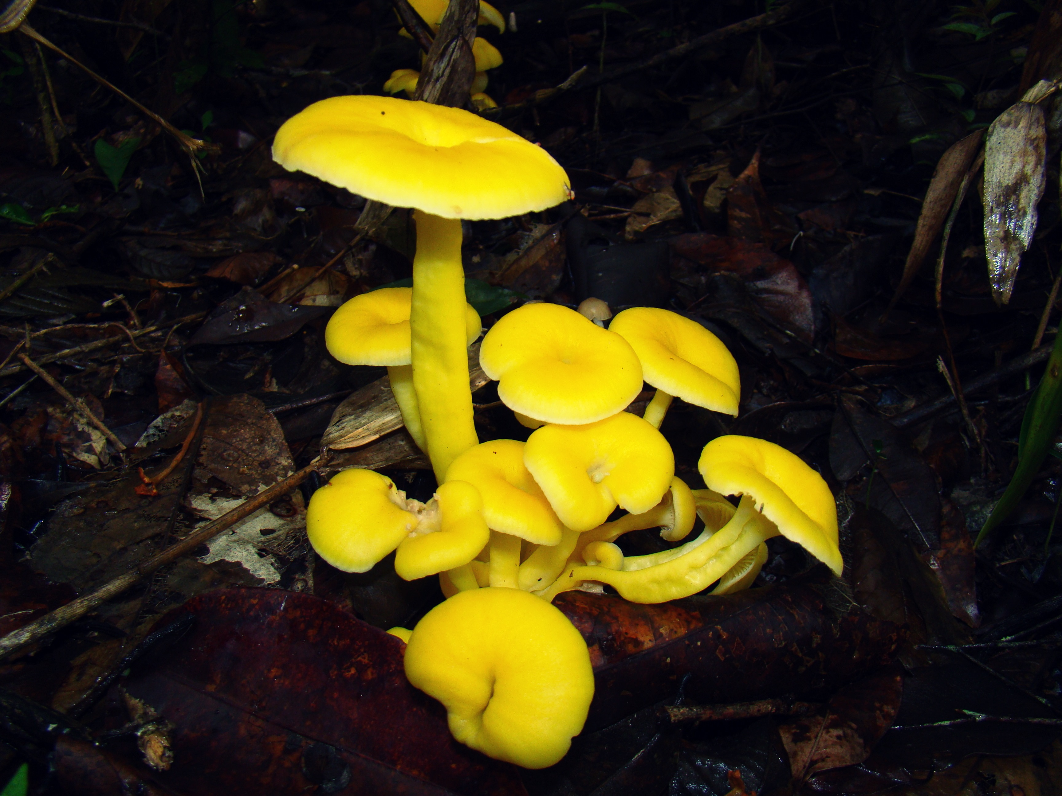 Tomada en los alrededores de la Laguna Canaima